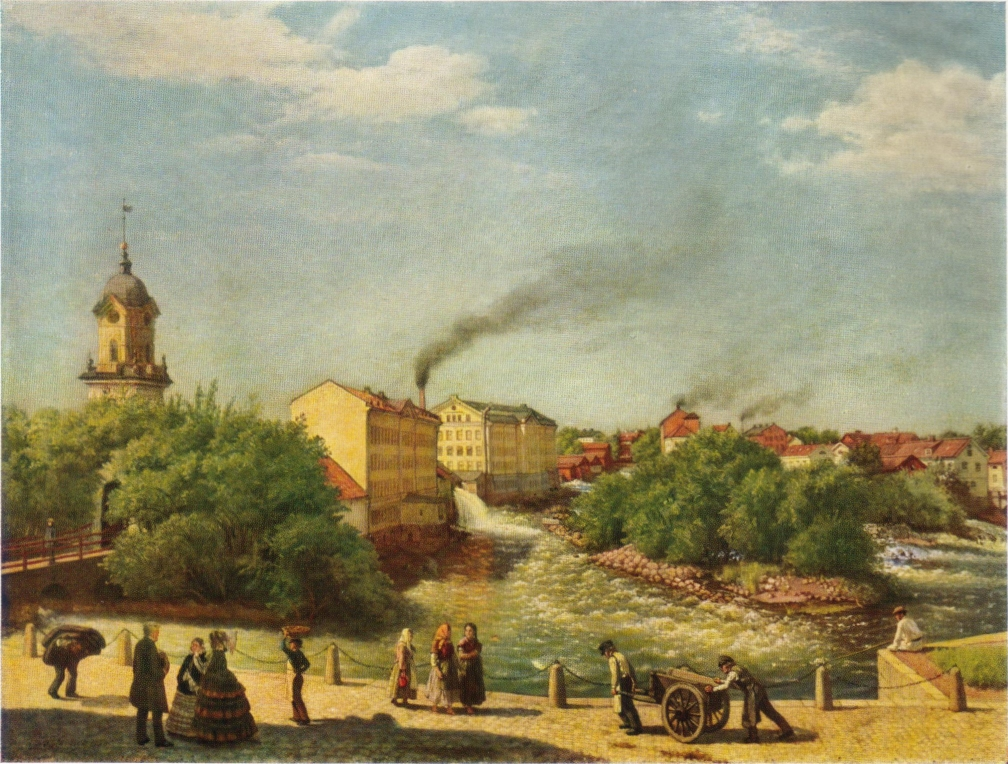 Emanuel Magnus, part owner of Holmen and his daughter Göthilda Magnus (married with John Philipson) speaks with Göthilda's cousin Amalia Jacobson (married with Carl David Philipson). 17-year-old Ernst Magnus is fishing in the river.